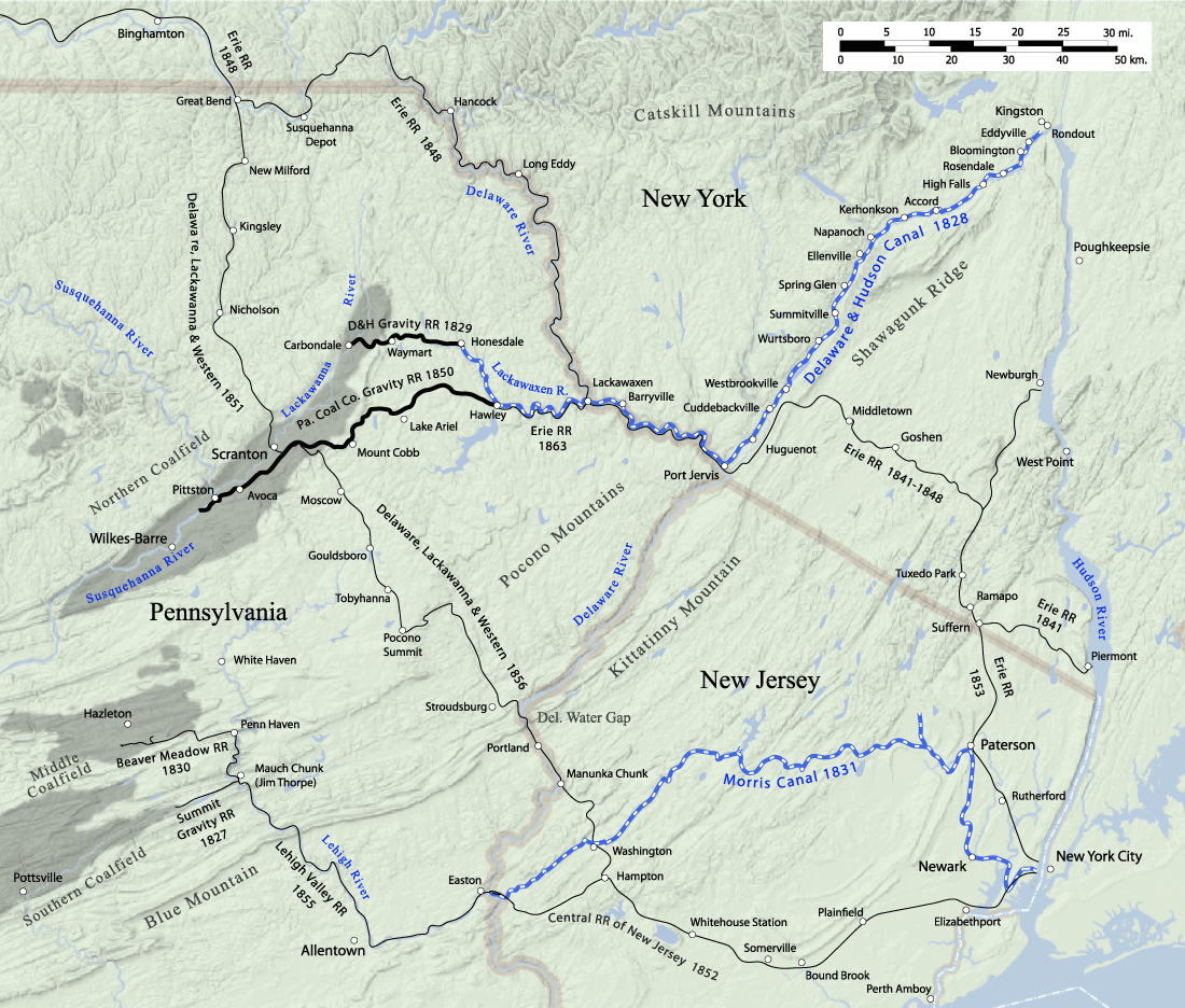 Early transportation lines to the northern Pennsylvania anthracite coal fields, circa 1865, including the Delaware and Hudson canal, Delaware, Lackawanna and Western Railroad, Lehigh Valley Railroad, Erie Railroad, Central Railroad of New Jersey, Morris canal, and gravity railroads.